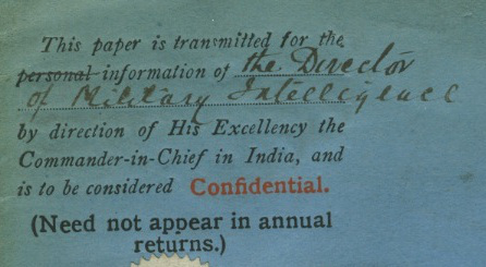 Cover detail of secret report by Hamilton Bower "Some notes on Tibetan Affairs," published in 1893.